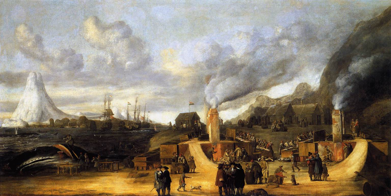 The whale-oil refinery of the Amsterdam chamber of the Greenland Company on Amsterdam Island off the coast of Spitsbergen. To the left the sea with whales and ships. To the right various installations with smoking chimneys and large groups of workmen.